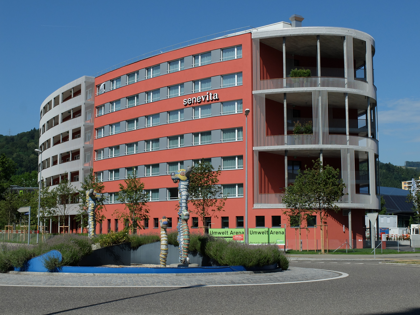 Senevita Lindenbaum